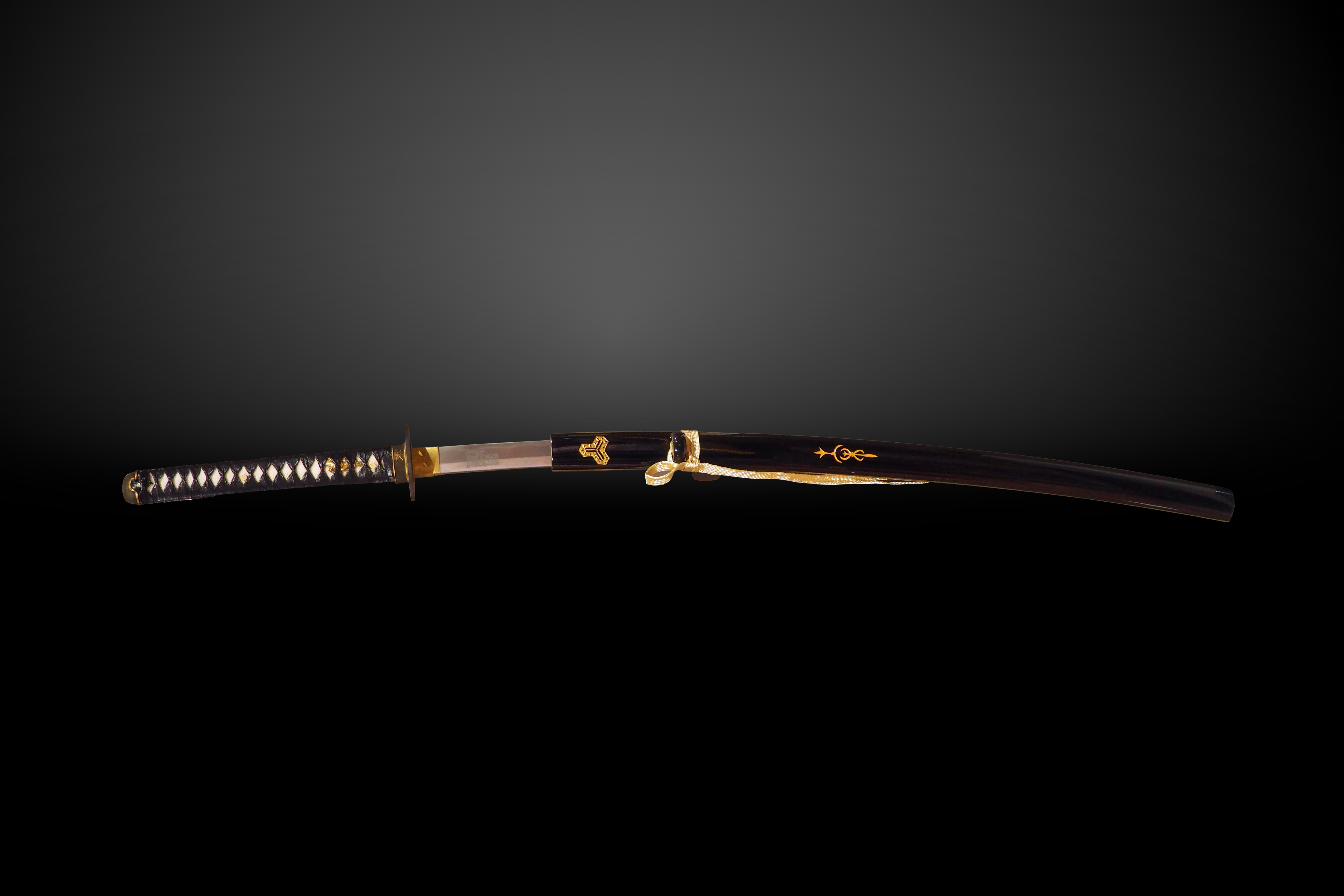 Copy of the katana used by Béatrice Kiddo in Kill Bill (2003-2004).